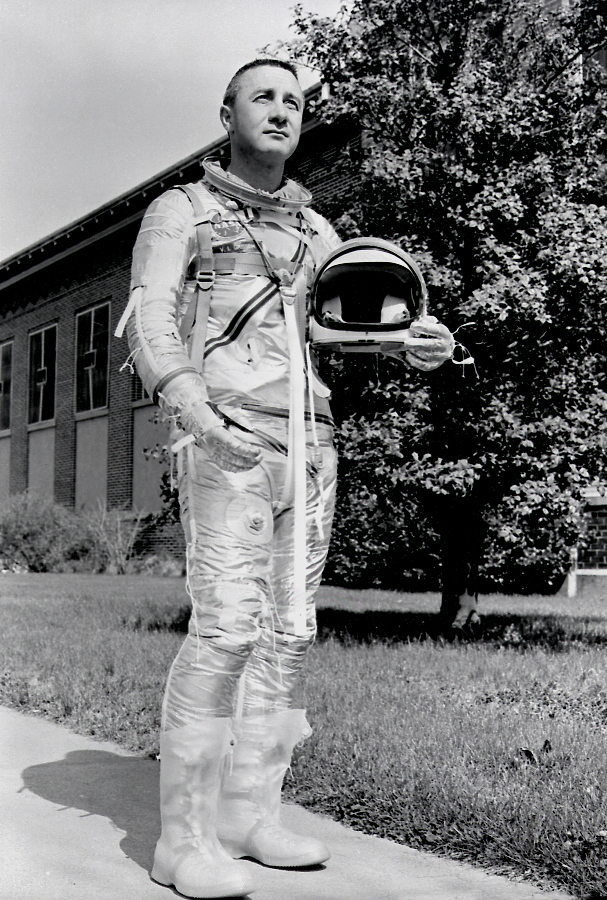 Astronaut Virgil I. "Gus" Grissom, one of the original seven astronauts for Project Mercury selected by NASA on April 27, 1959. The MR-4 mission, boosted by the Mercury-Redstone vehicle, made the second manned suborbital flight. The capsule, Liberty Bell 7, sank into the sea after the splashdown.